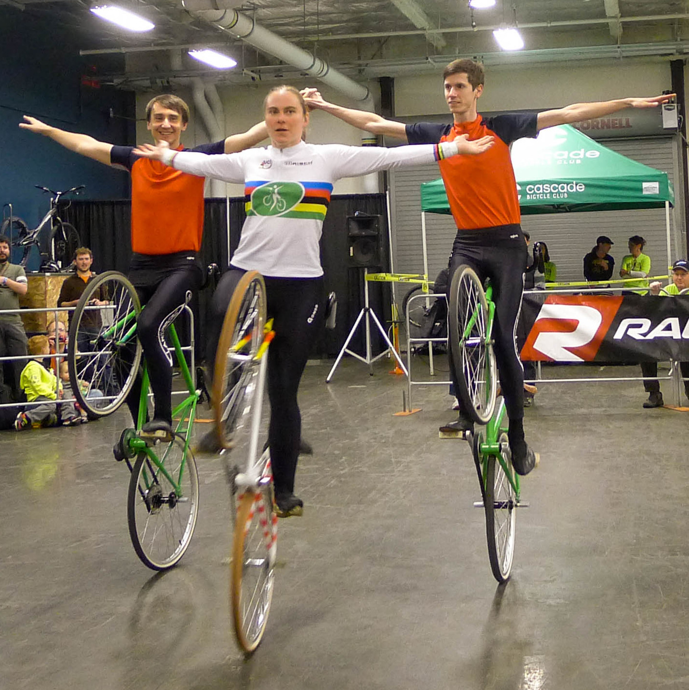 Corinna Hein, Lukas Matla & Stefan Muso doing artistic cycling in March 2014